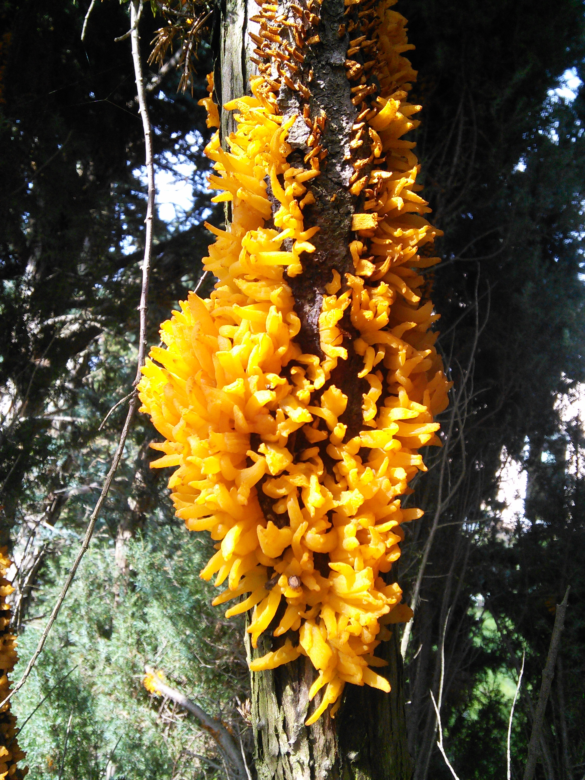 Pear juniper rust. Gymnosporangium sabinae